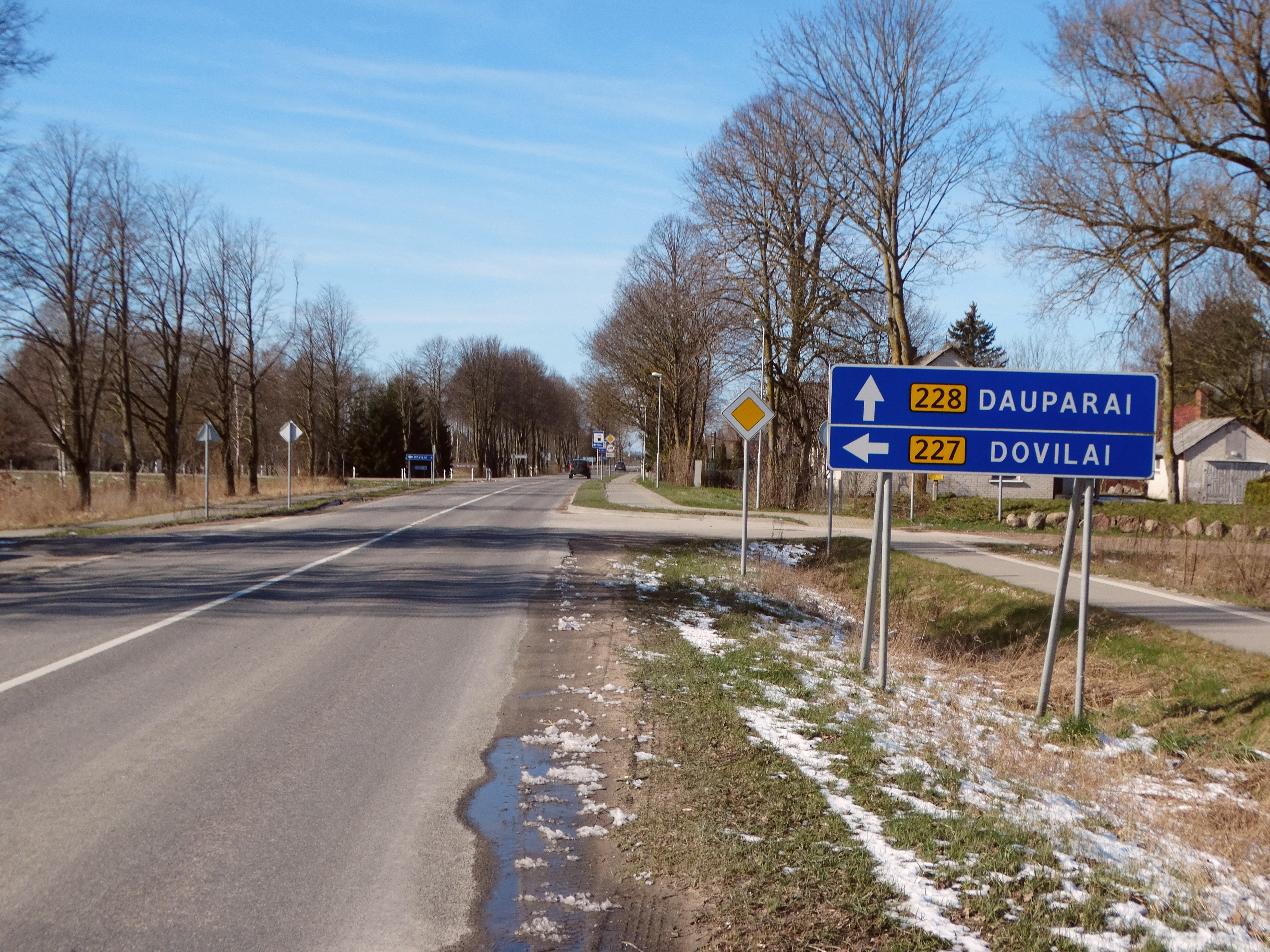 Road 228, Gargždai, Lithuania